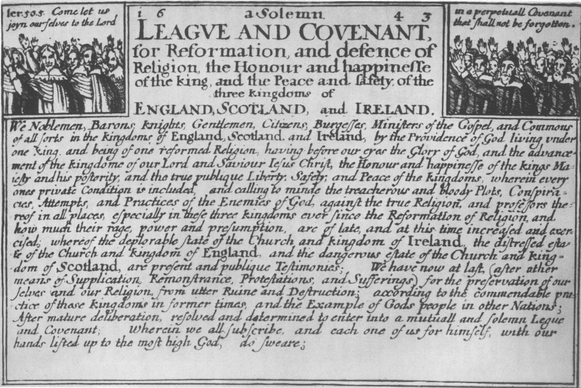 The Solemn League And Covenant, as publicised in England.